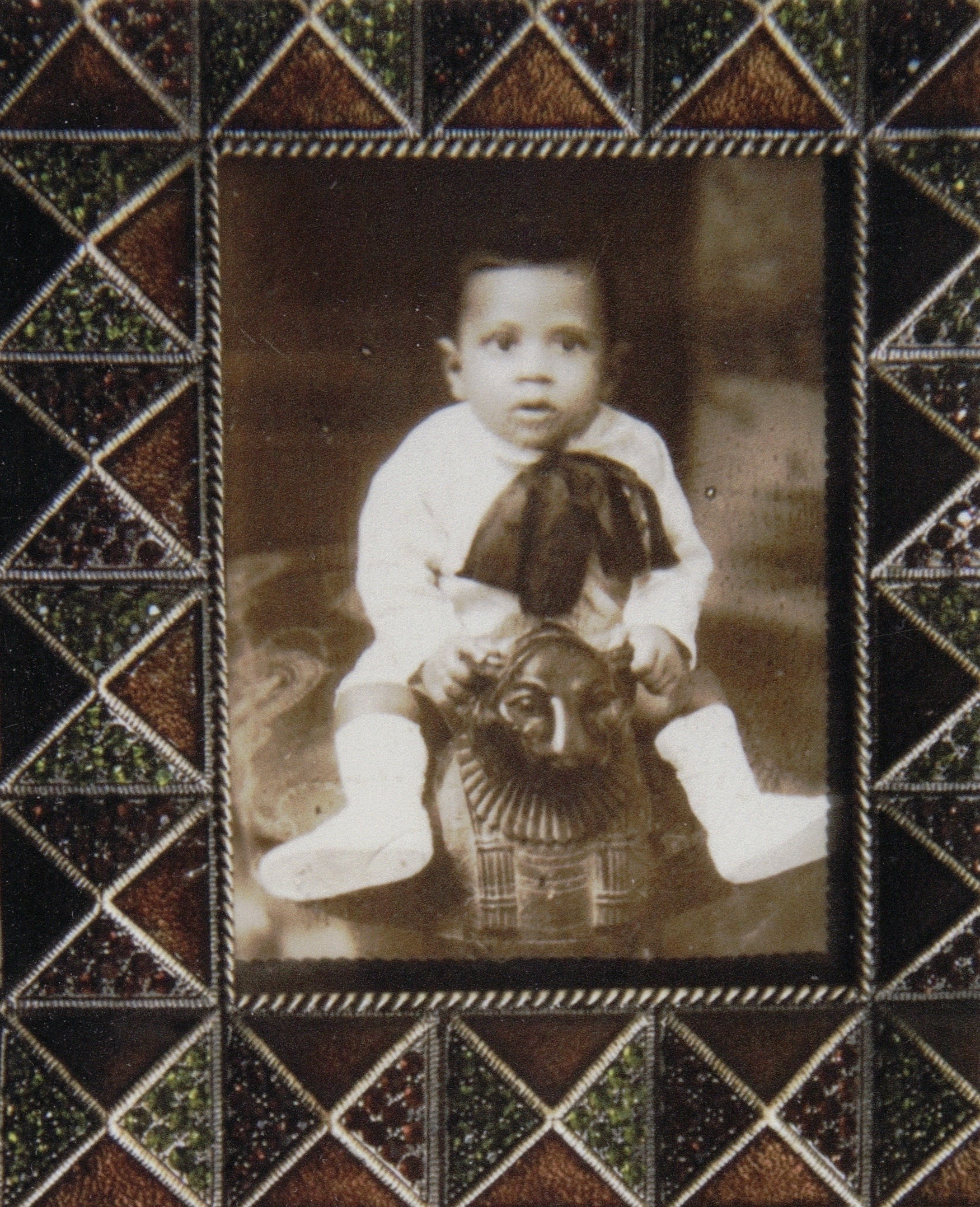 a framed picture of Ahmed Morsi as a child in the 1930s